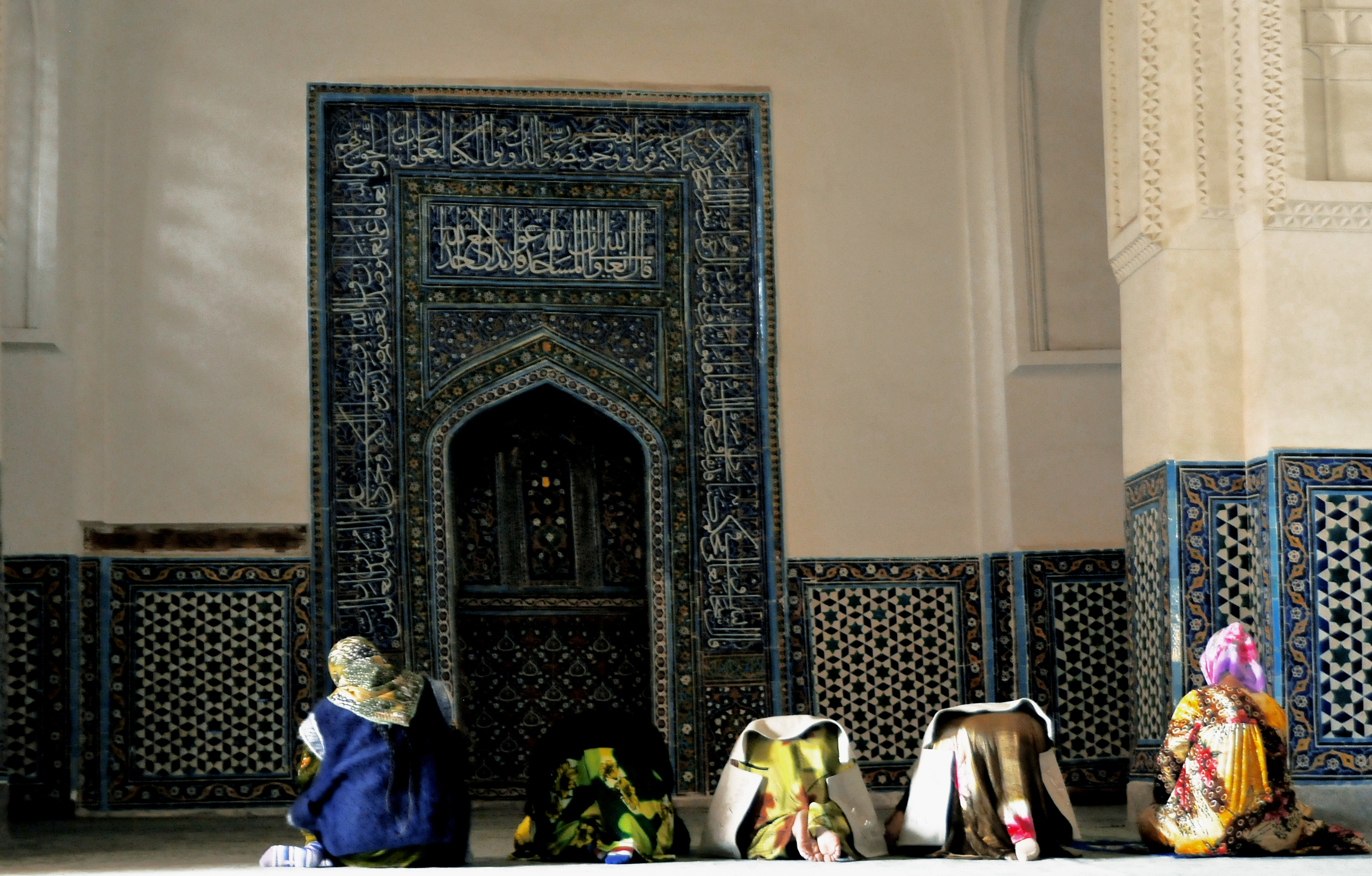 Women praying at Katta mosque; Shah-i-Zinda. Samarkand, Uzbekistan